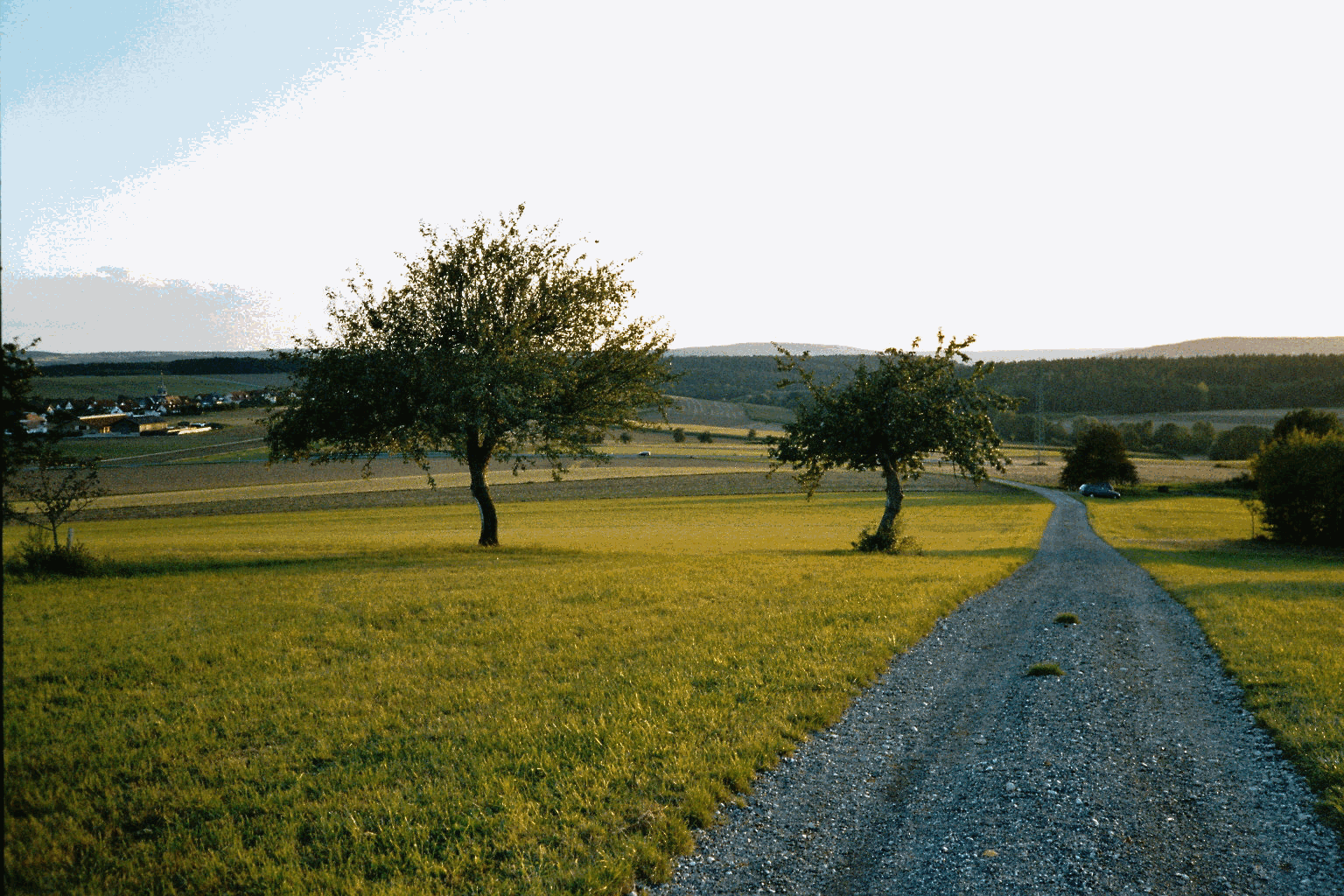 Germany, Upper Franconia, left in the valley the village Wernsdorf (district of Strullendorf near Bamberg), view to the Hauptsmoorwald and Steigerwald